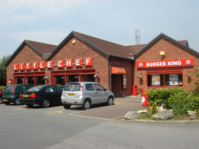 Little Chef. on the A64 near Askham Richard. Little Chefs are hard to find nowadays - at one time they were everywhere.